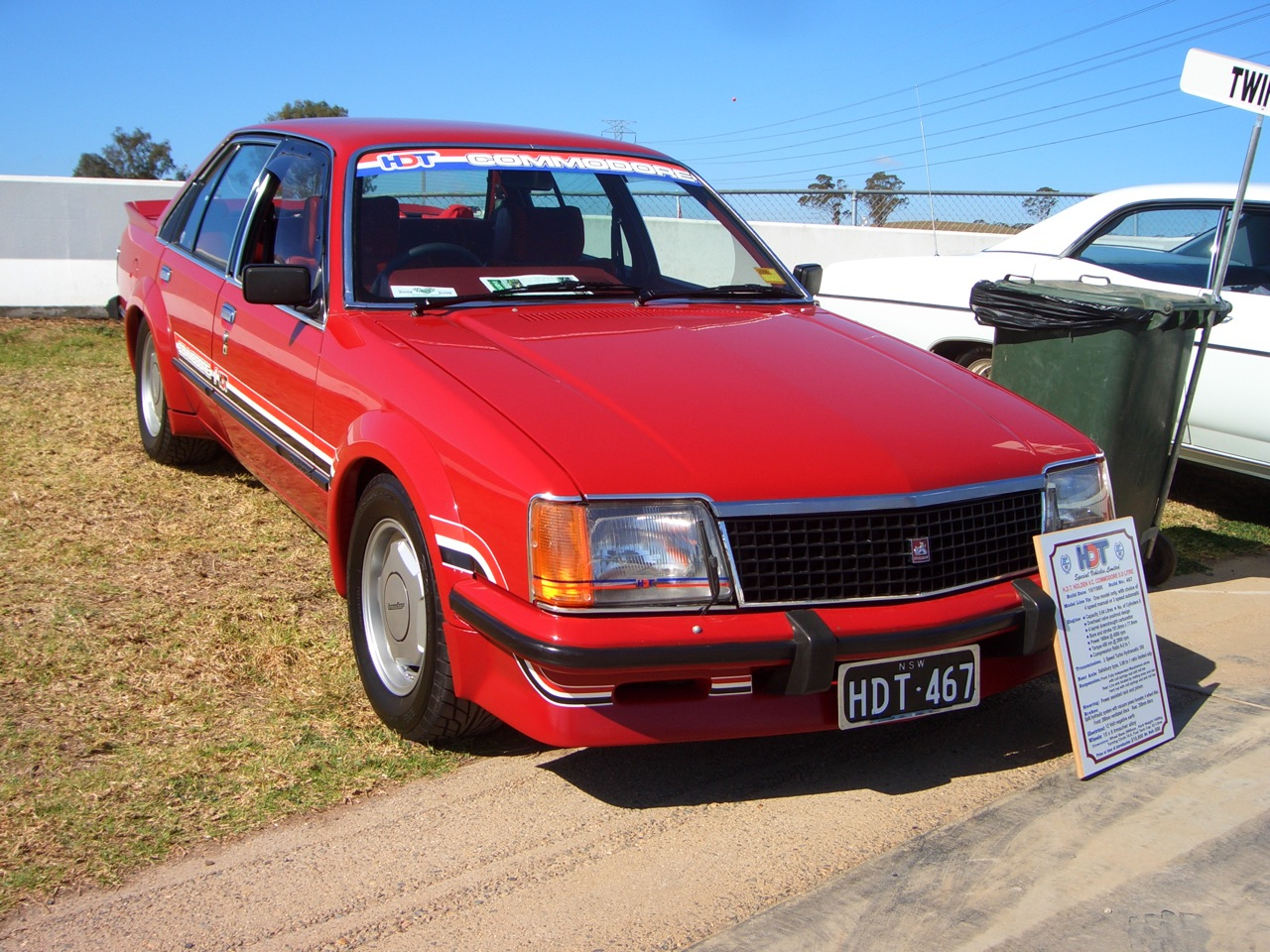 1980 HDT Commodore (VC) sedan, photographed at the 2005 Shannon's Eastern Creek Classic Car Show, in Eastern Creek, New South Wales, Australia.